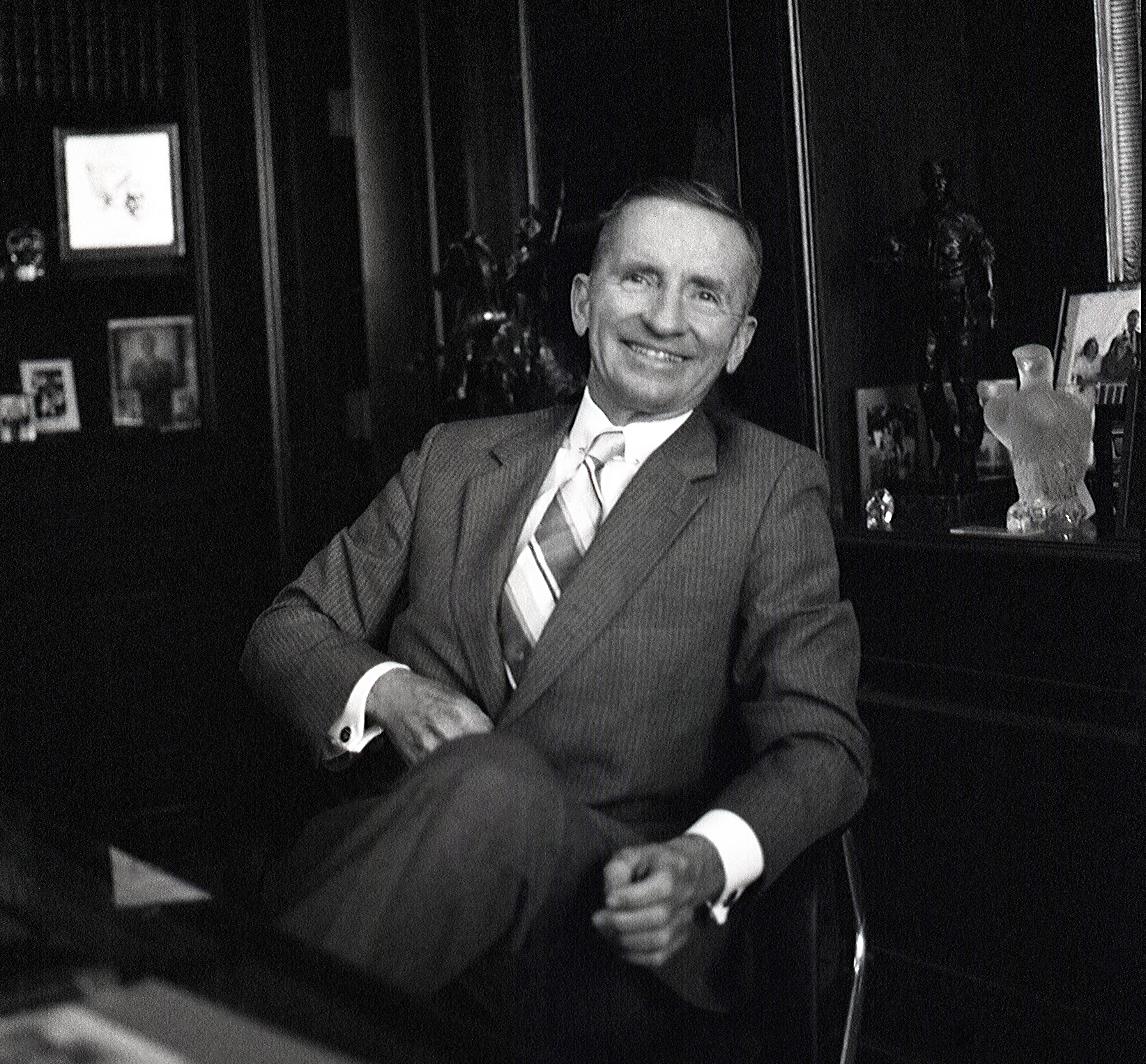 Ross Perot in his office, Dallas, Texas